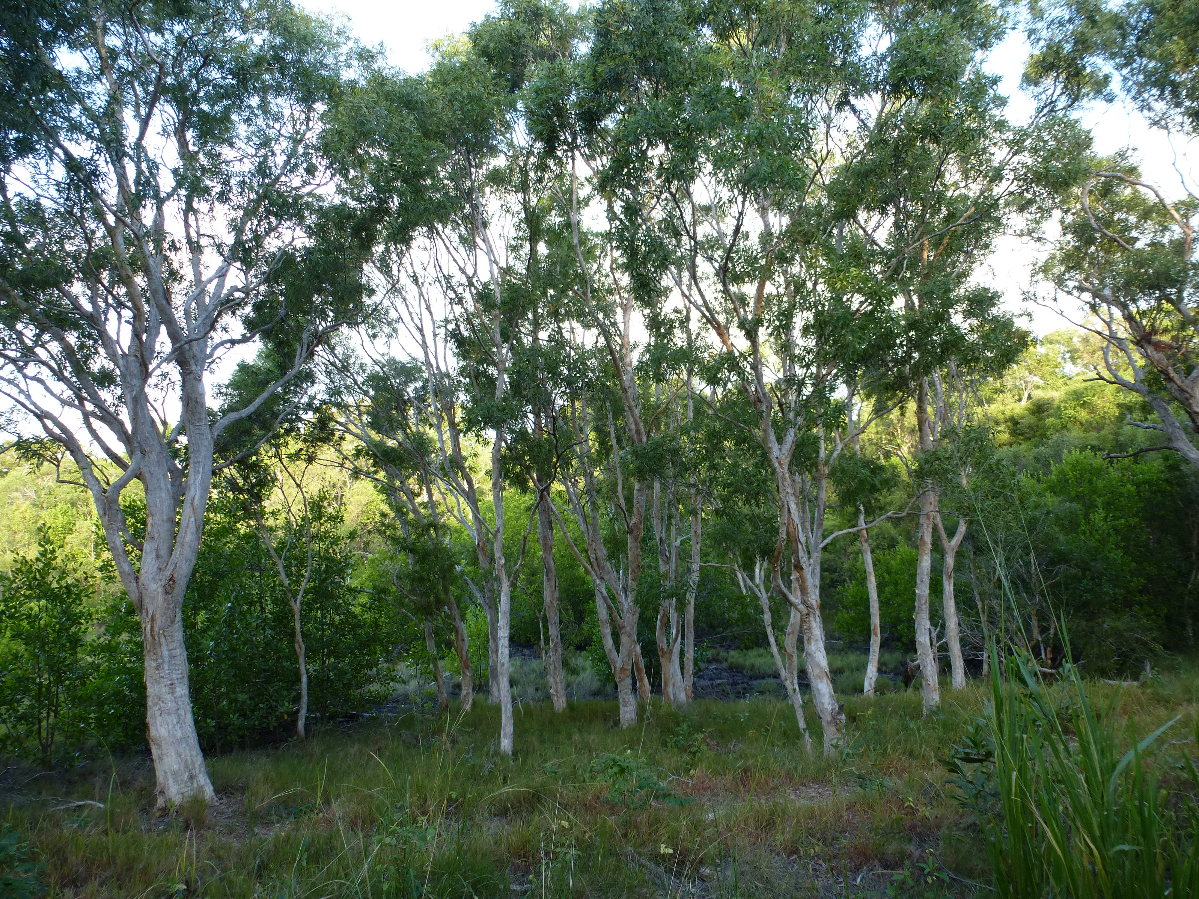 Melaleuca acacioides growing near mangroves near the Cooktown Cemetery.